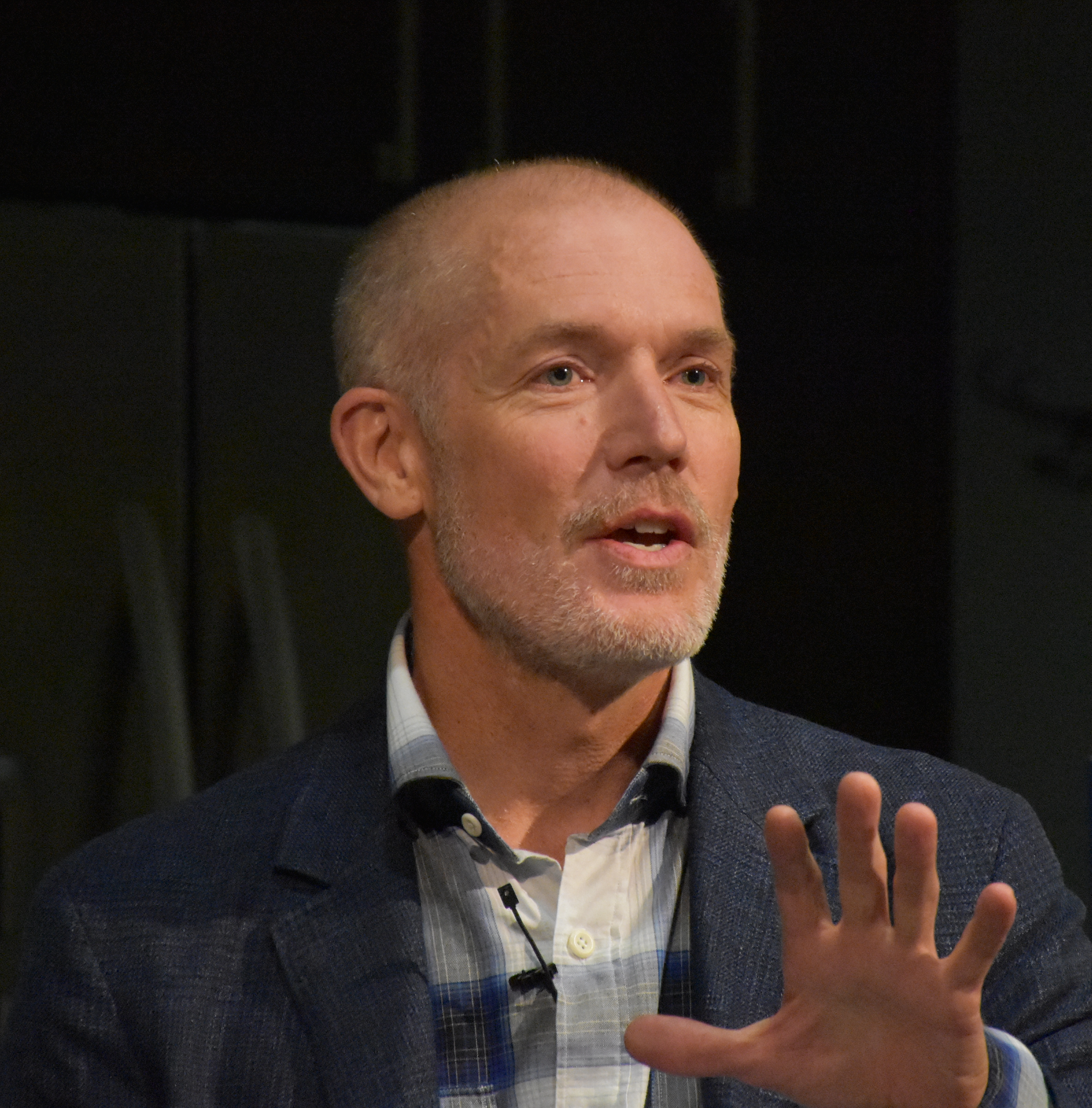 US venture capitalist Gregory C. Gretsch, as a moderator at an event in San Francisco with Margaret O'Mara about her book "The Code: Silicon Valley and the Remaking of America"